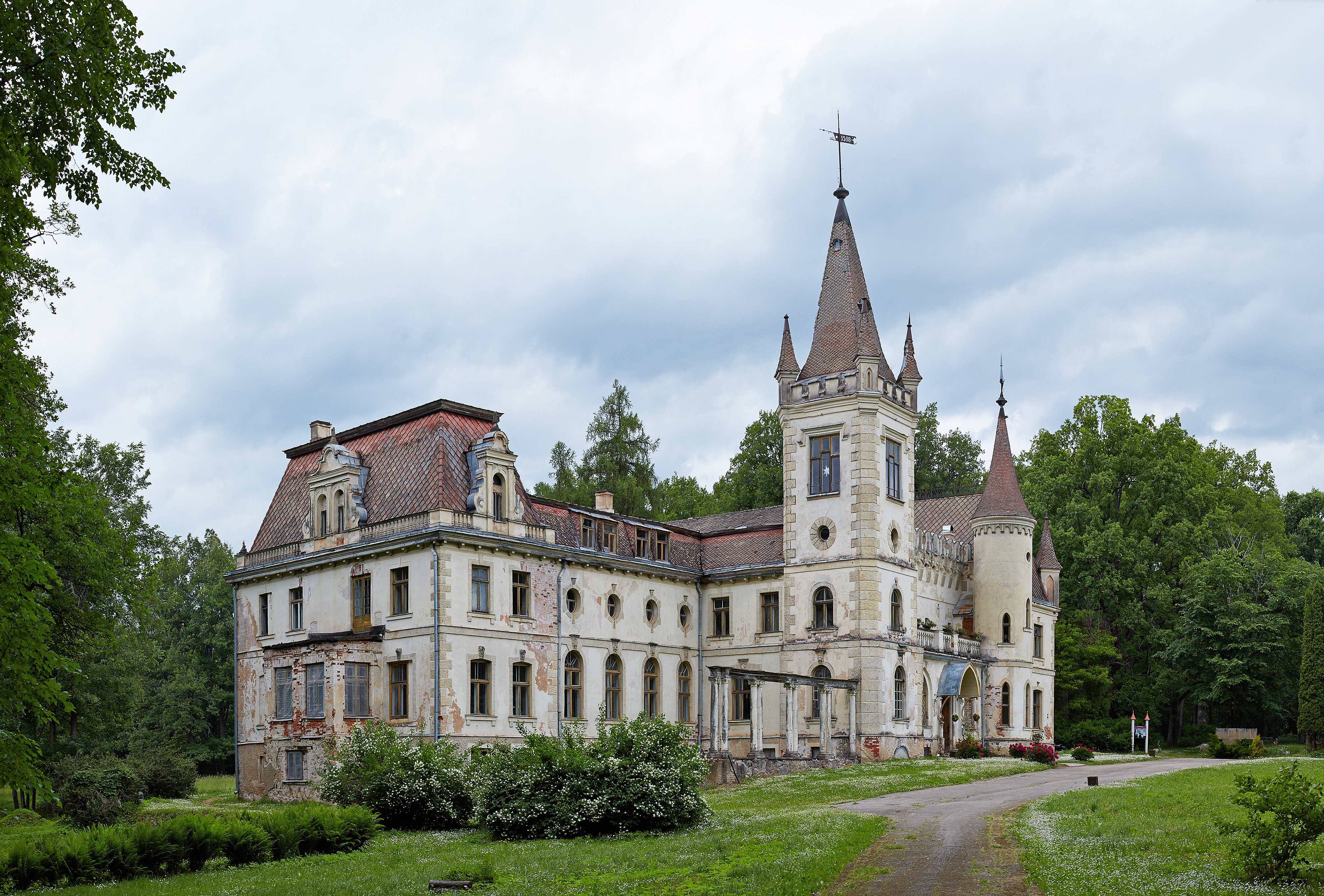 Stameriena manor